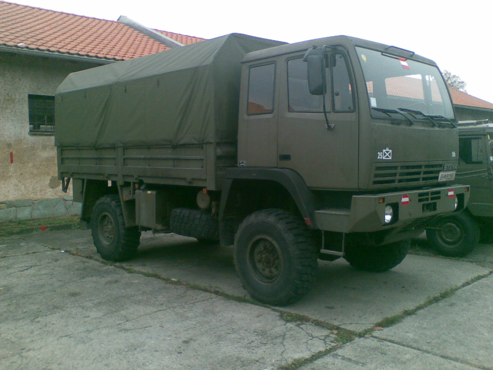 A Steyr 12M18 of the Austrian Armed Forces